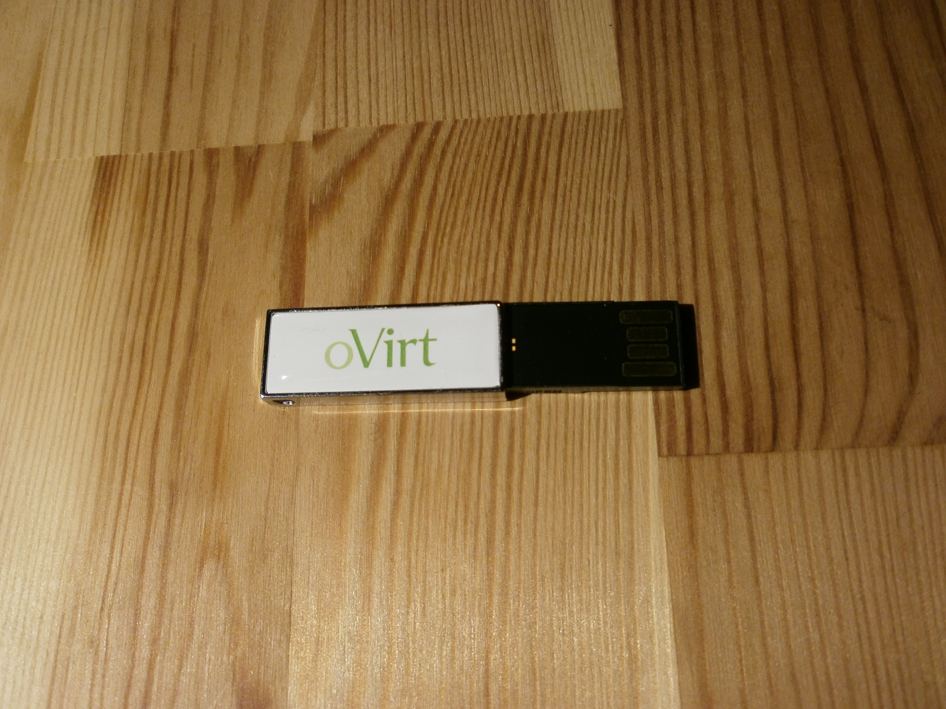 An oVirt demonstration pendrive